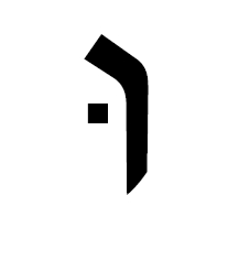 Hebrew shuruk sign